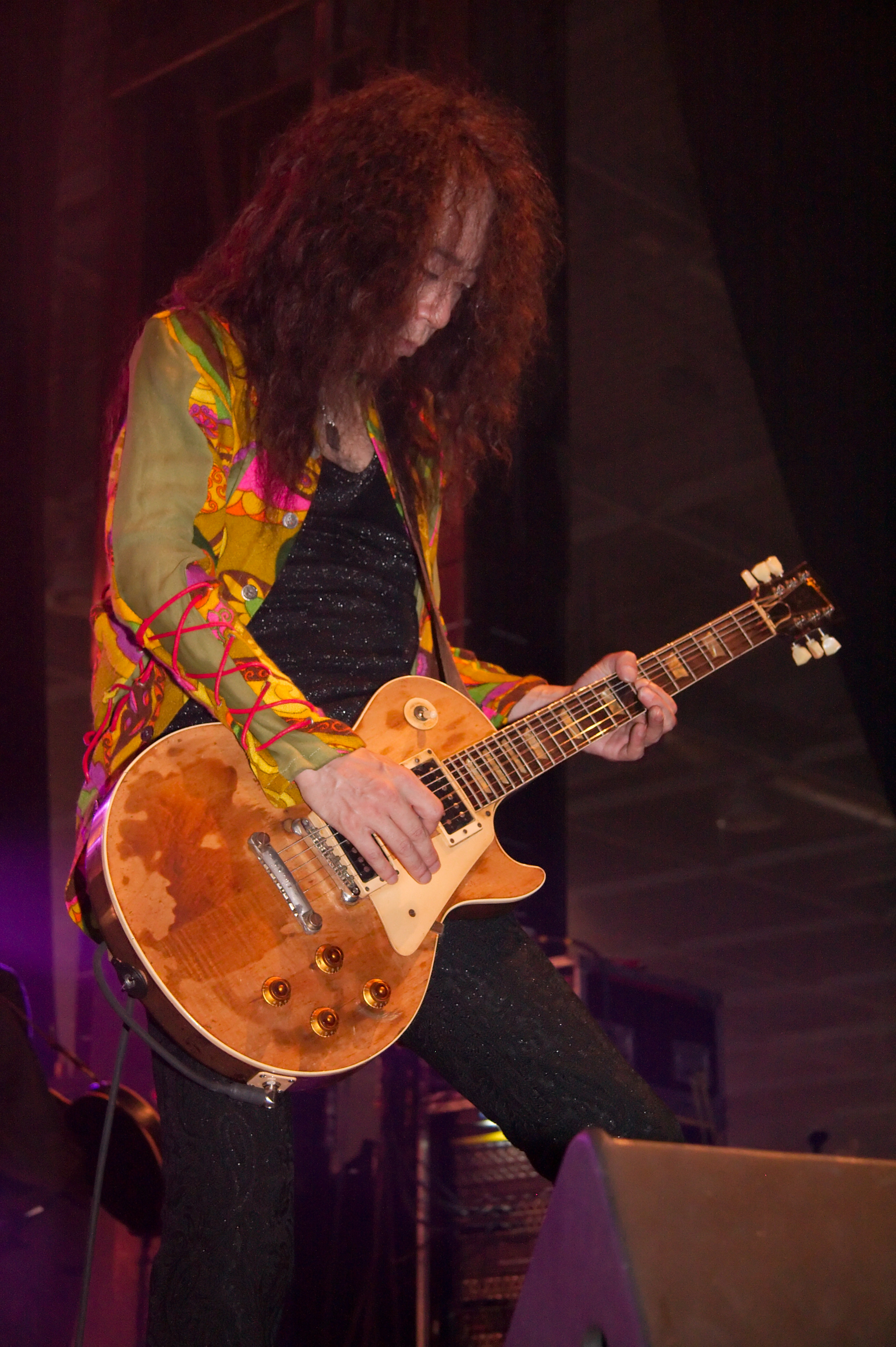 Ra:IN live at Japan Expo 2009 (Paris, France).